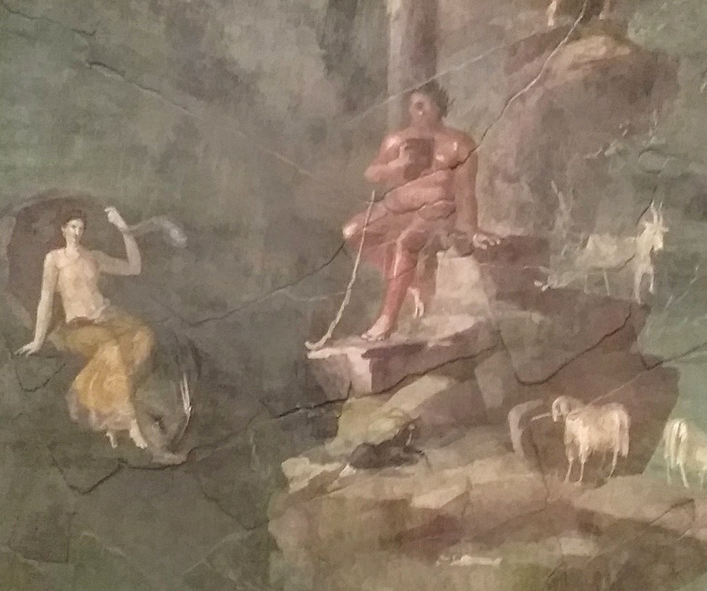 Detail of a wall painting from a bedroom in the villa of Agrippa Postumus at Boscotrecase showing a landscape with Galetea and Polyphemus with some of his flock. Painted in the last decade of the 1st century B. C. On display at the Metropolitan Museum of Art, New York City